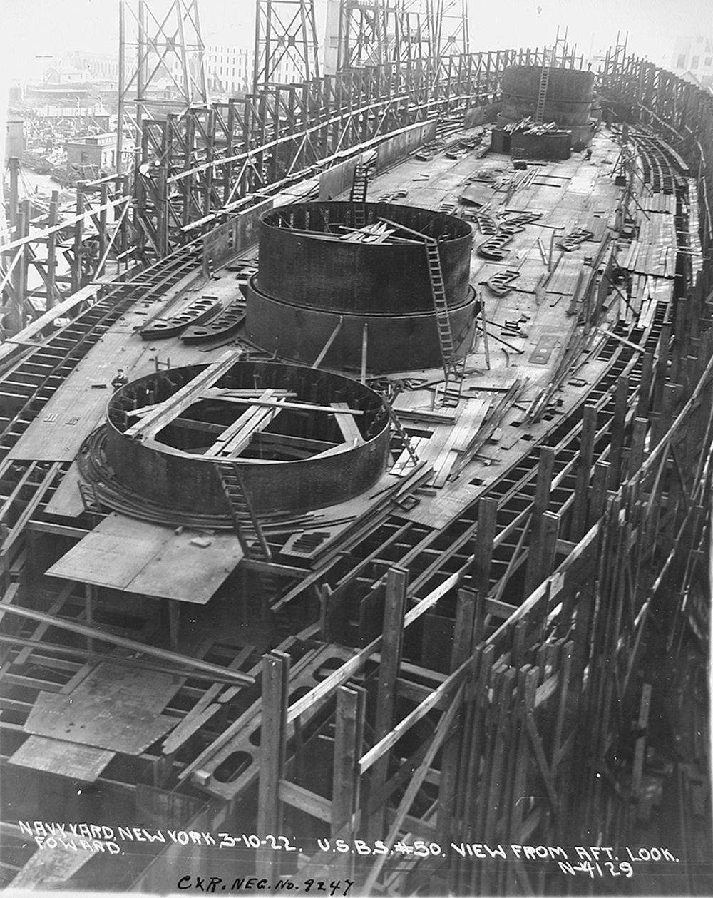 PCU Indiana (BB-50) under construction at the New York Naval Shipyard. This view is from the ship's aft looking forward.